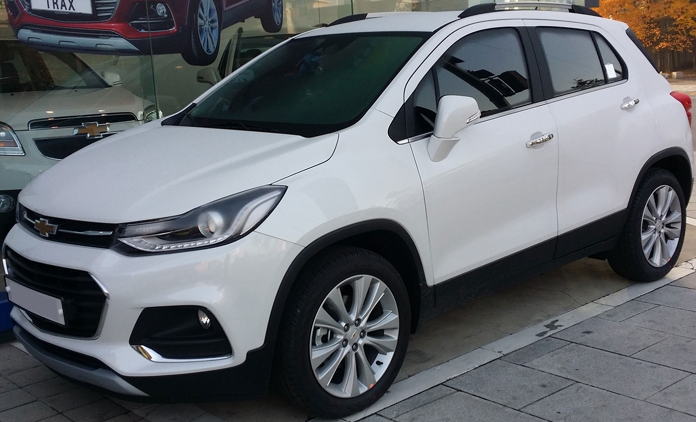 Chevrolet The New Trax